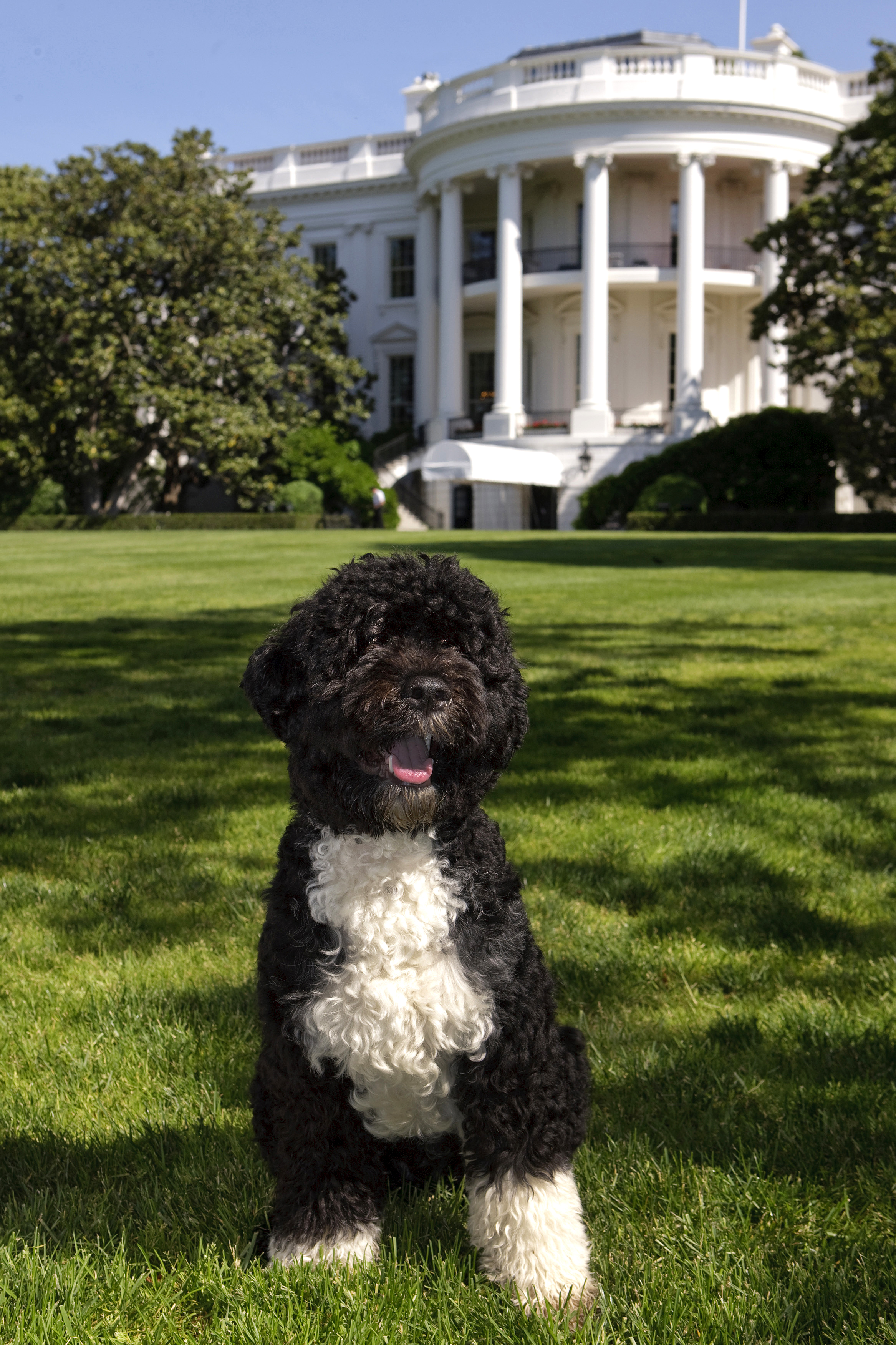 The official portrait of the Obama family dog, "Bo", a Portuguese water dog, on the South Lawn of the White House.